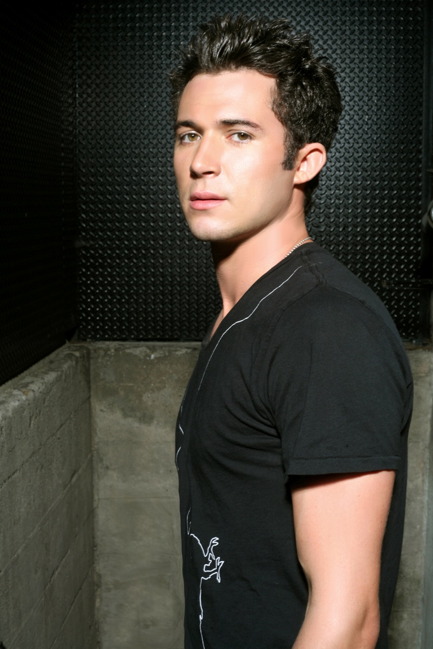 Justin Willman